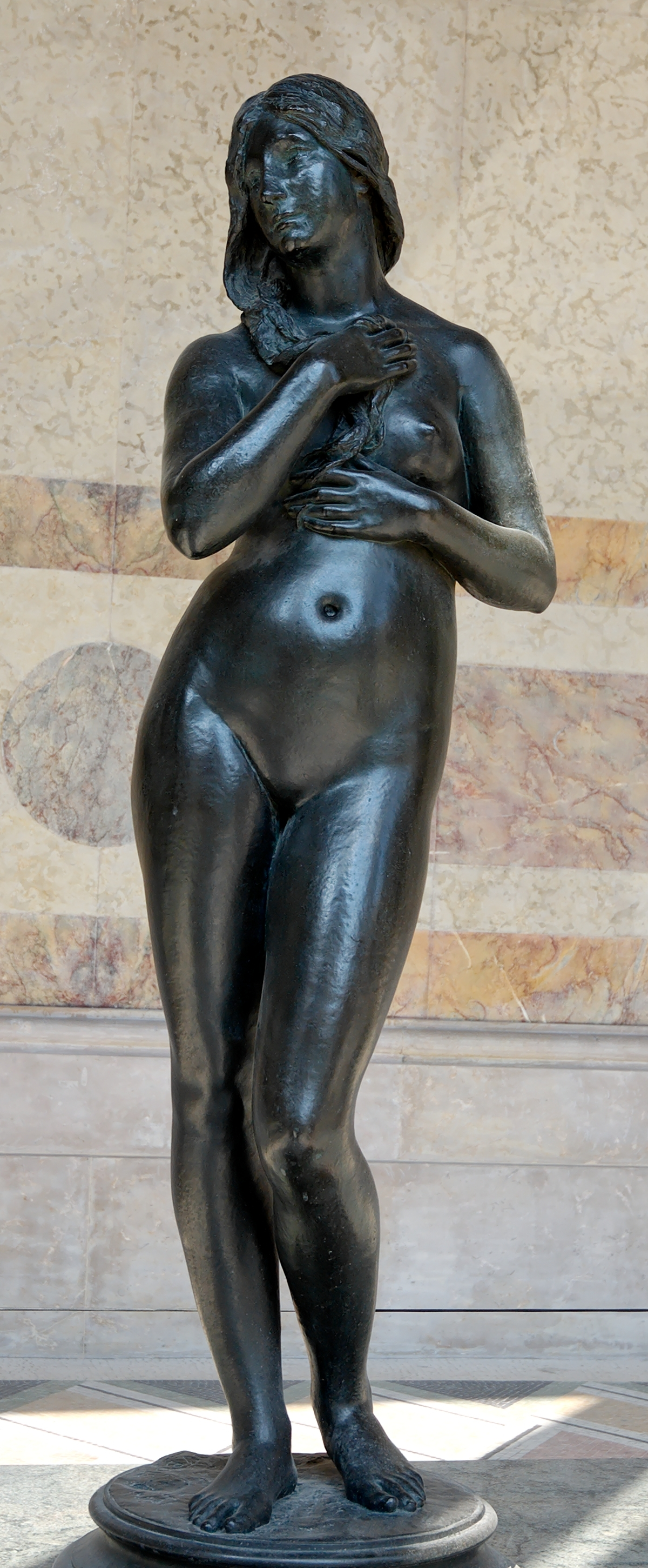 Ève naissante (The Birth of Eve). Bronze, cast by Jabœuf and Rouard, 1873.